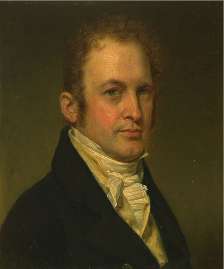 Self-portrait by Ethan Allen Greenwood. Worcester Art Museum, Worcester, Massachusetts.